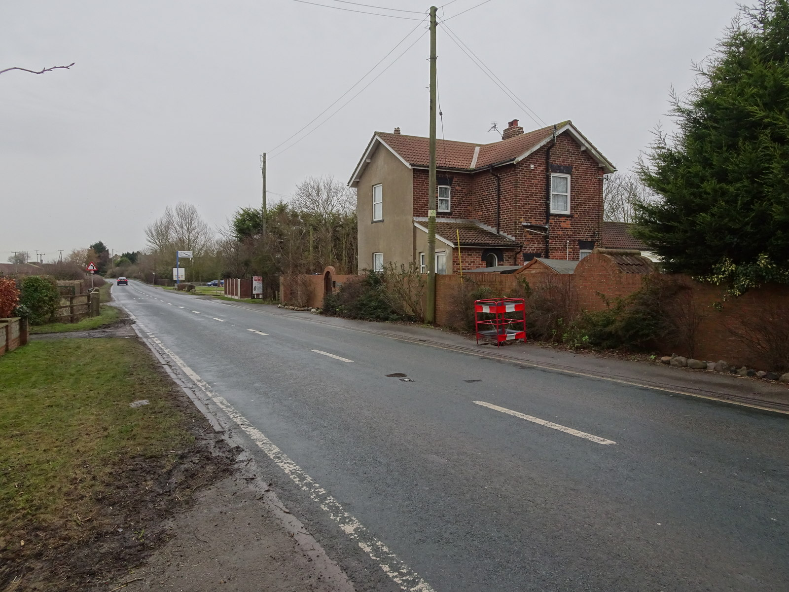 Winestead railway station (site)Winestead, East Riding of Yorkshire, England.Opened in 1854 by the Hull & Holderness railway, later part of the North Eastern Railway, on the line from Hull Victoria Docks (Hull Paragon from 1864) to Withernsea, this station closed to passengers in 1904 and completely in 1956. View south at the former entrance. The railway ran left to right behind the building with a level crossing across the road.